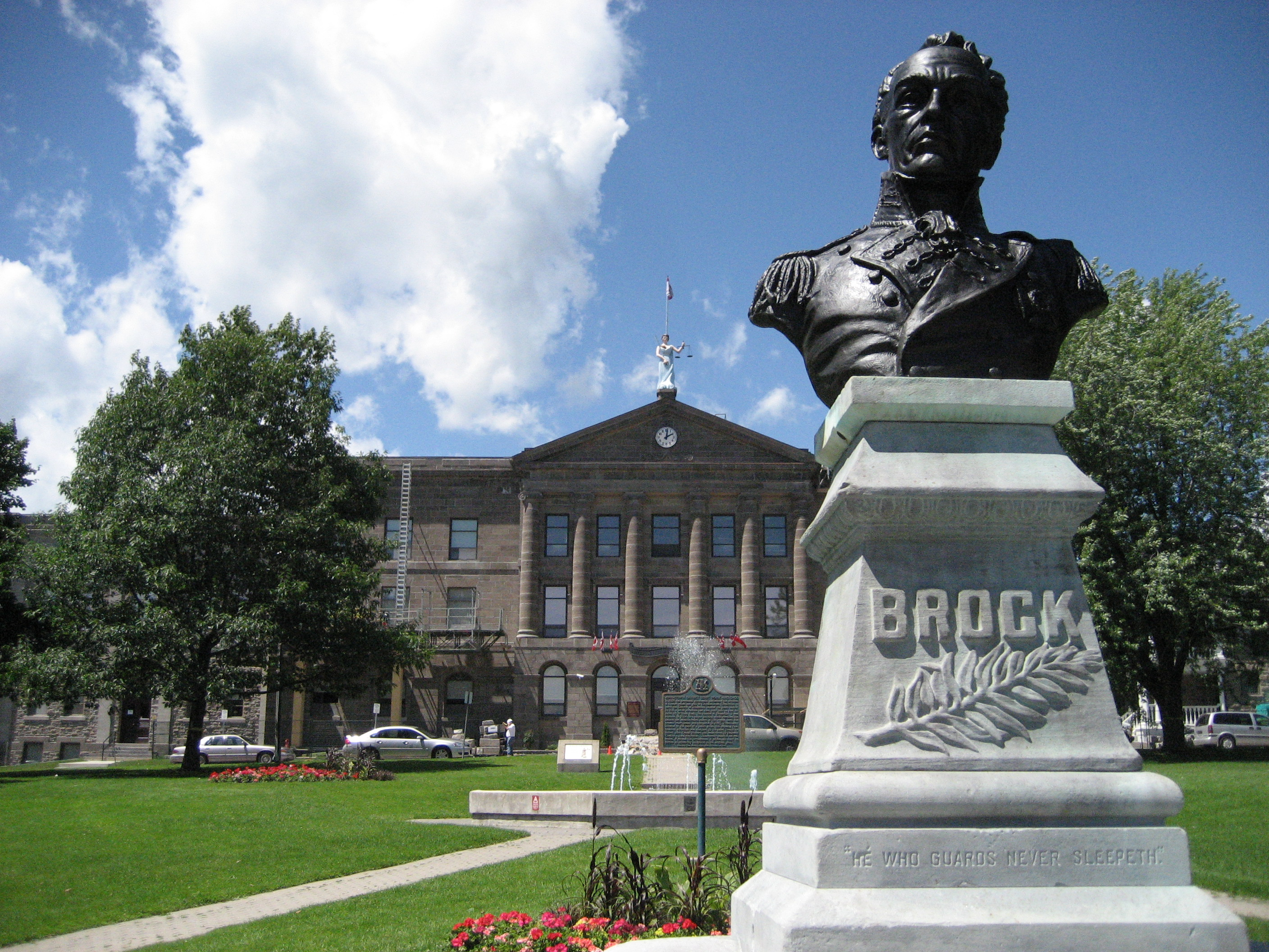 Courthouse building, Brockville, Ontario.